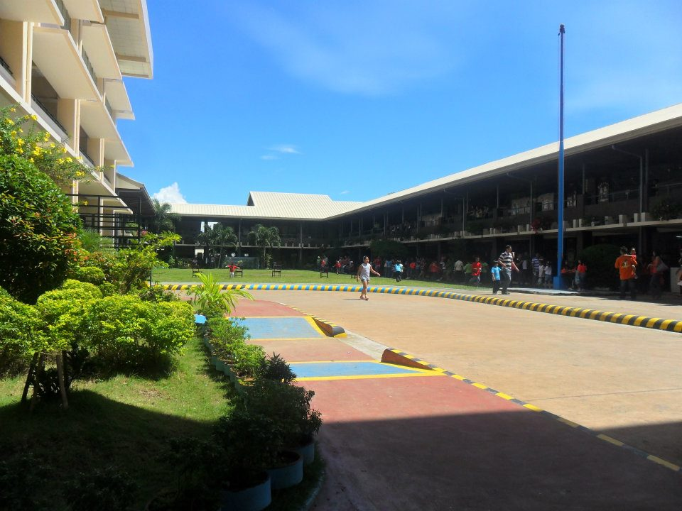 The Elementary Campus is shown in the background.